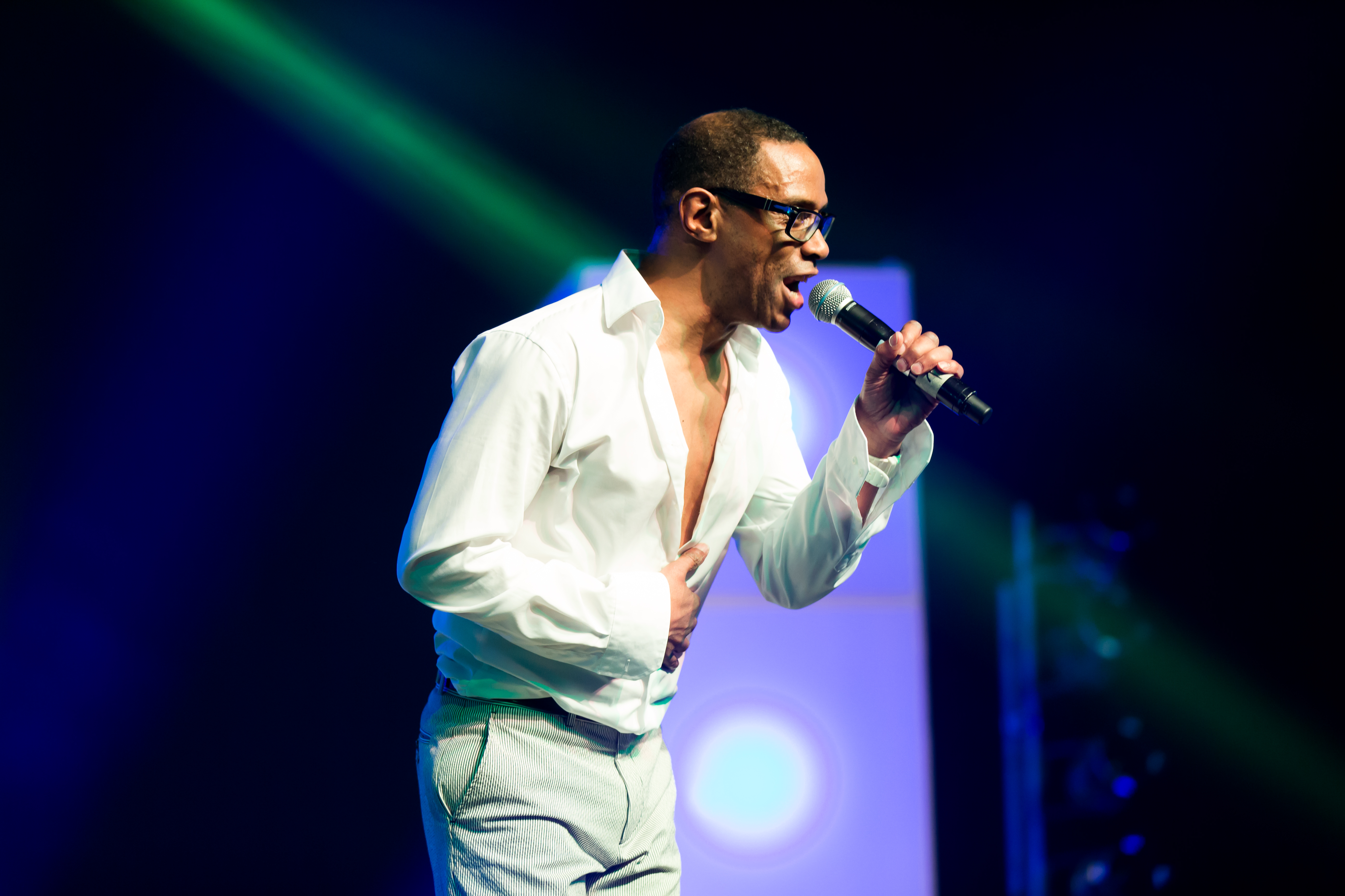 RPR1 90er Festival Maimarkthalle Mannheim Eloy, LayZee aka Mr. President, Nana, Right Said Fred, Snap! feat. Penny Ford during RPR1 90er Festival at Maimarkthalle, Mannheim, Baden-Württemberg, Germany on 2015-03-14, Photo: Sven Mandel